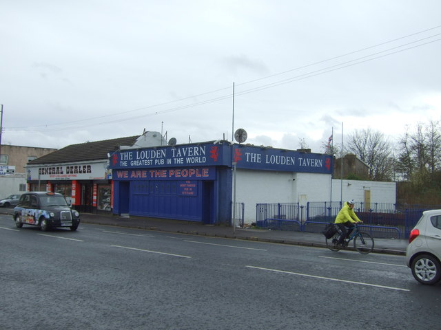 The Louden Tavern, Glasgow